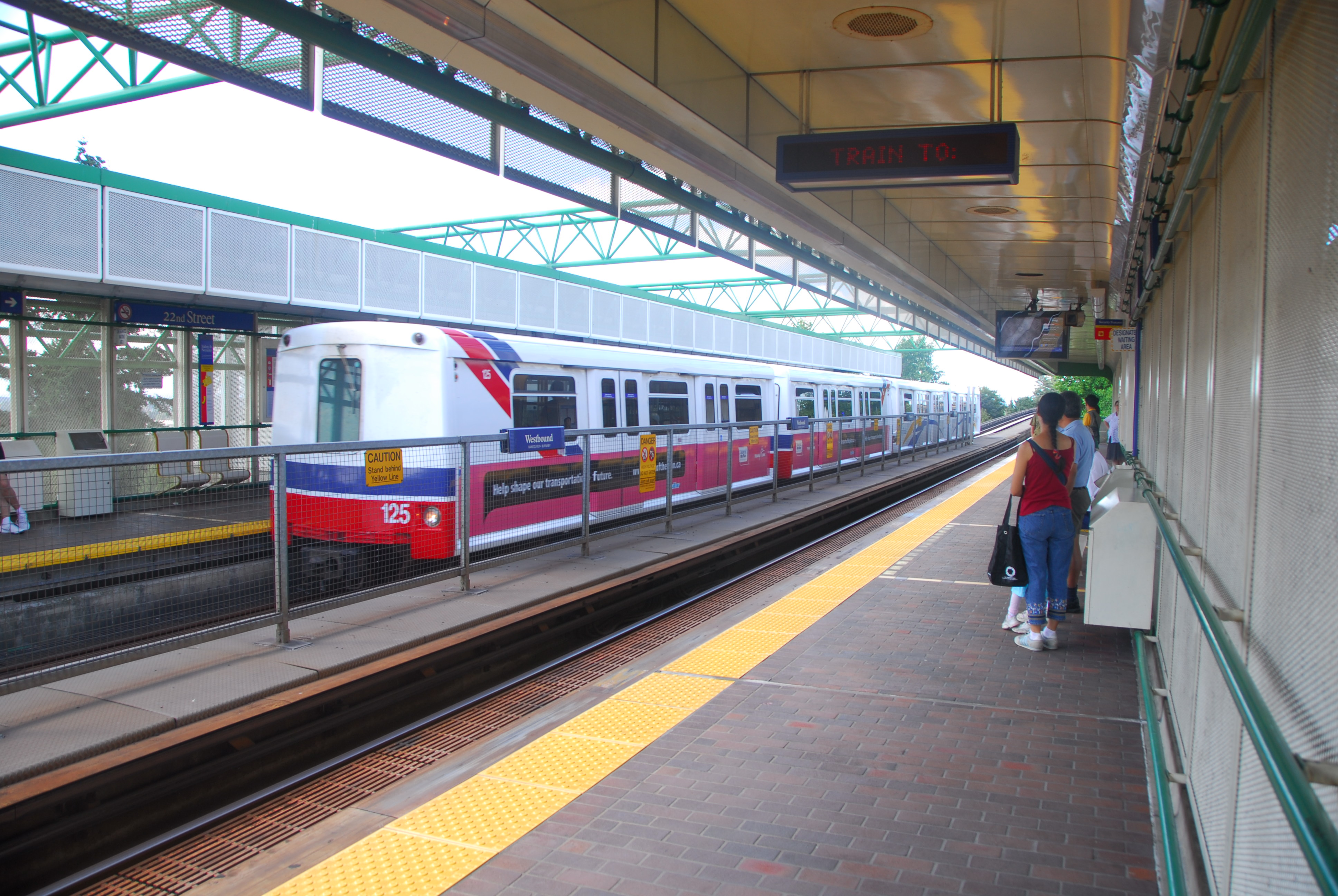 22nd Street Station of the Vancouver SkyTrain in New Westminster, Canada. An eastbound Mark I train is approaching the station.